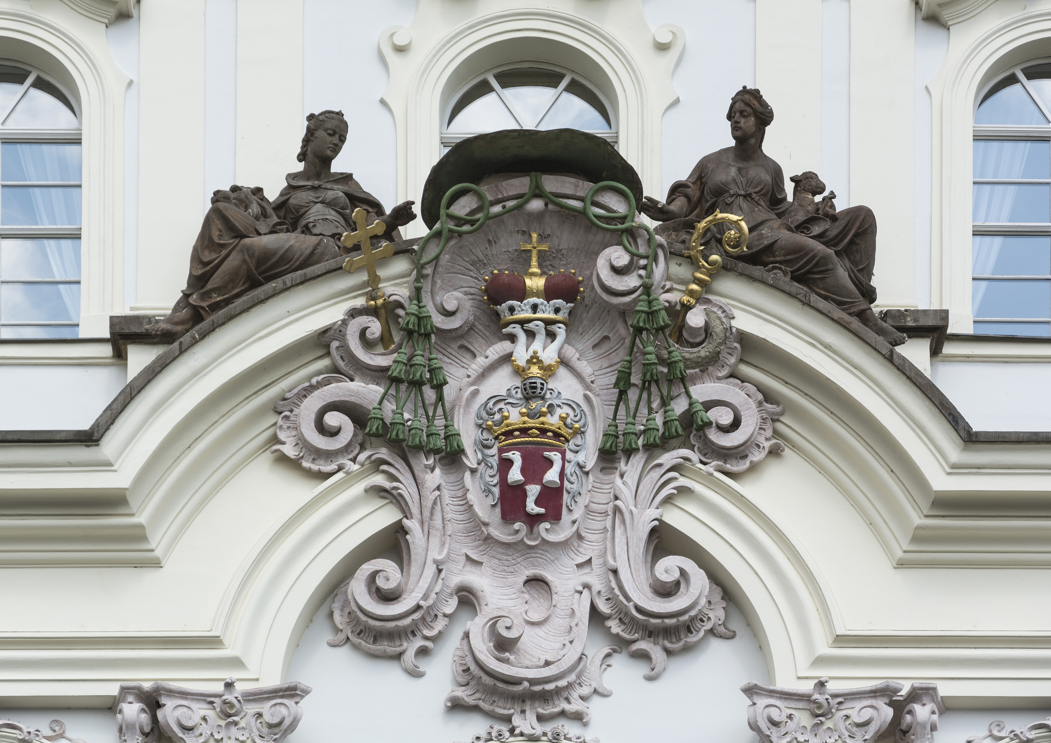 Archbishop Palace in Prague, coat of arms of Anton Peter Příchovský von Příchovice